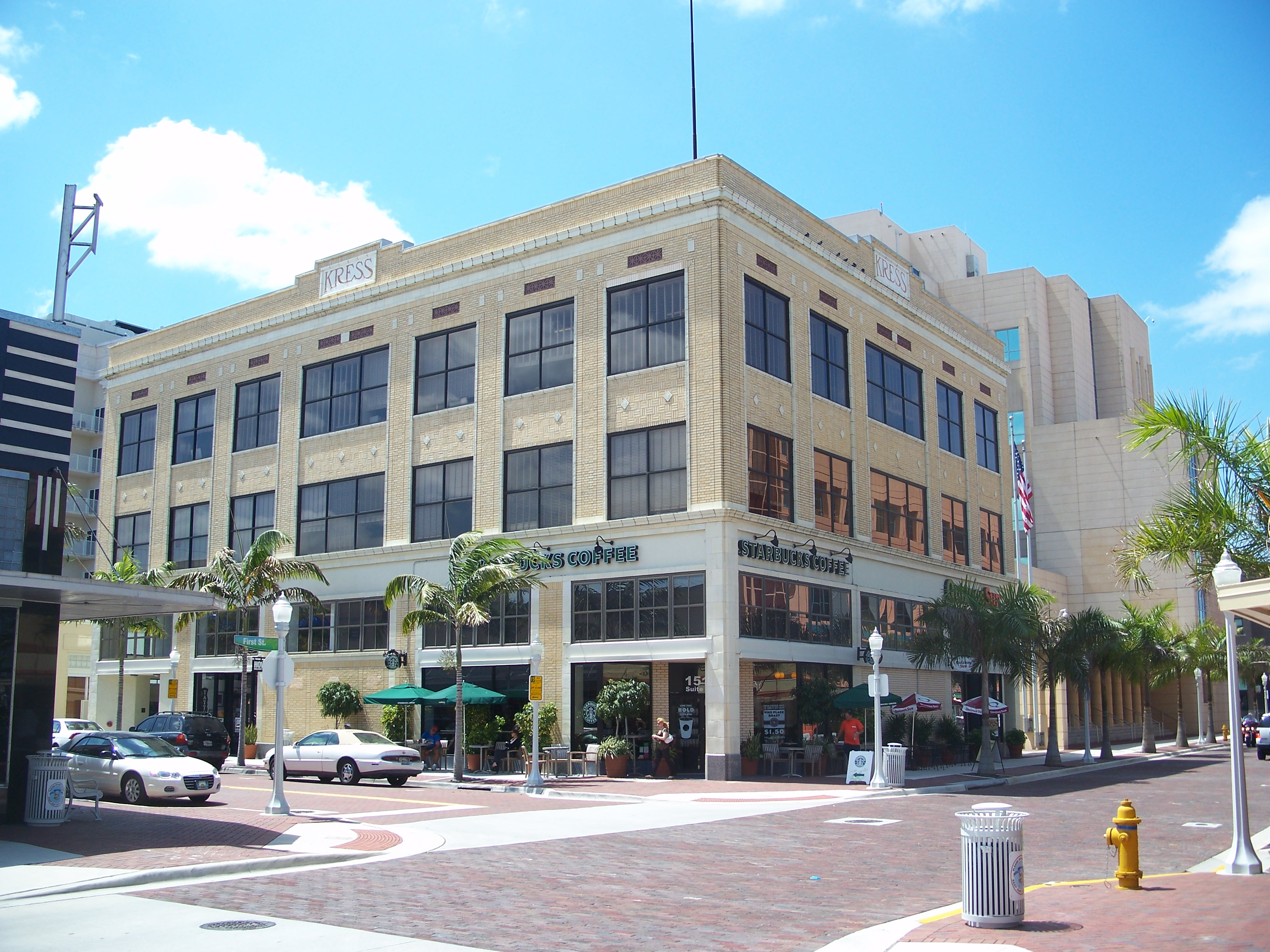 Fort Myers, Florida: Fort Myers Downtown Commercial District: Kress building.